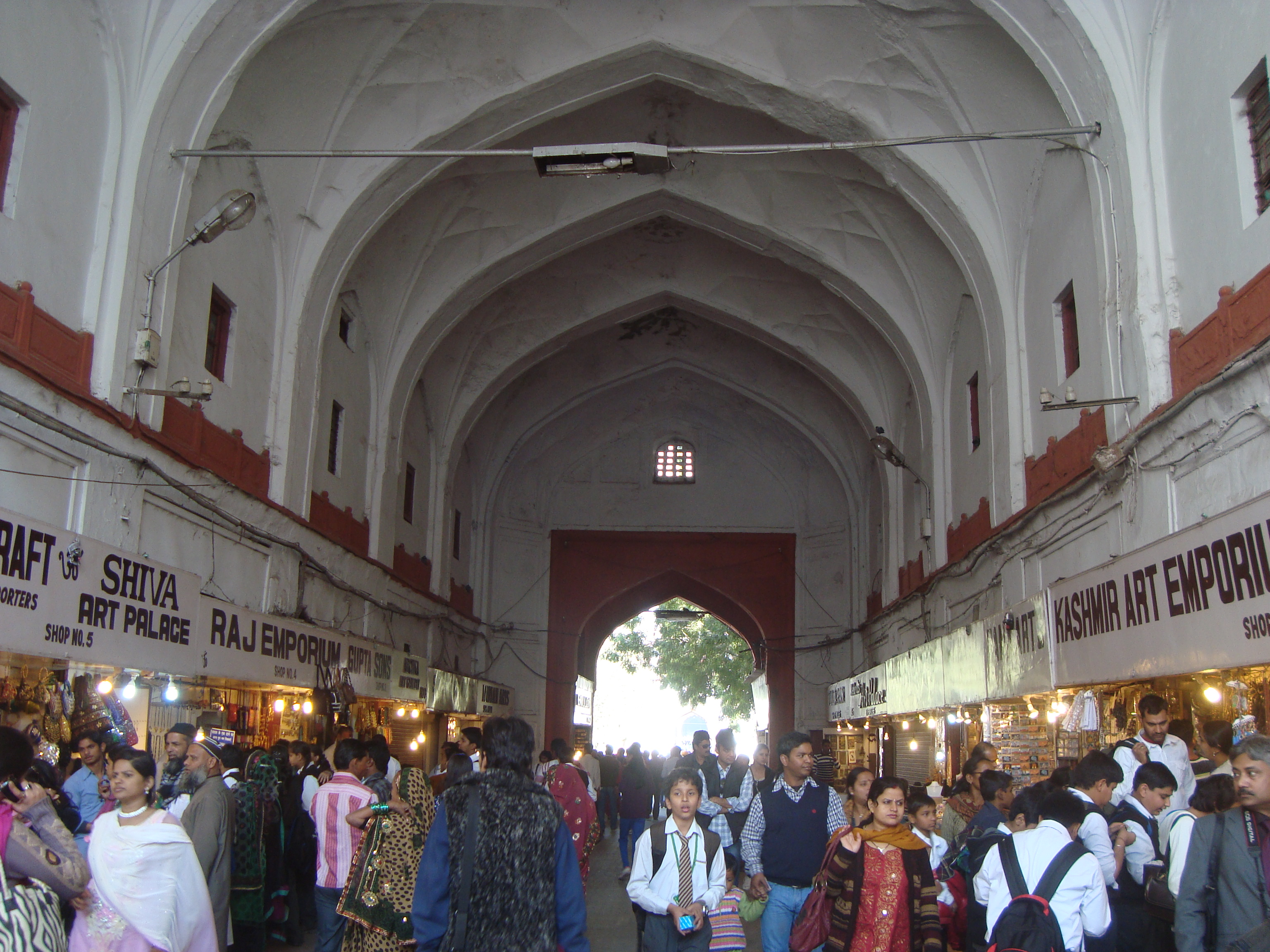 Chhatta Chowk, Red Fort, Delhi